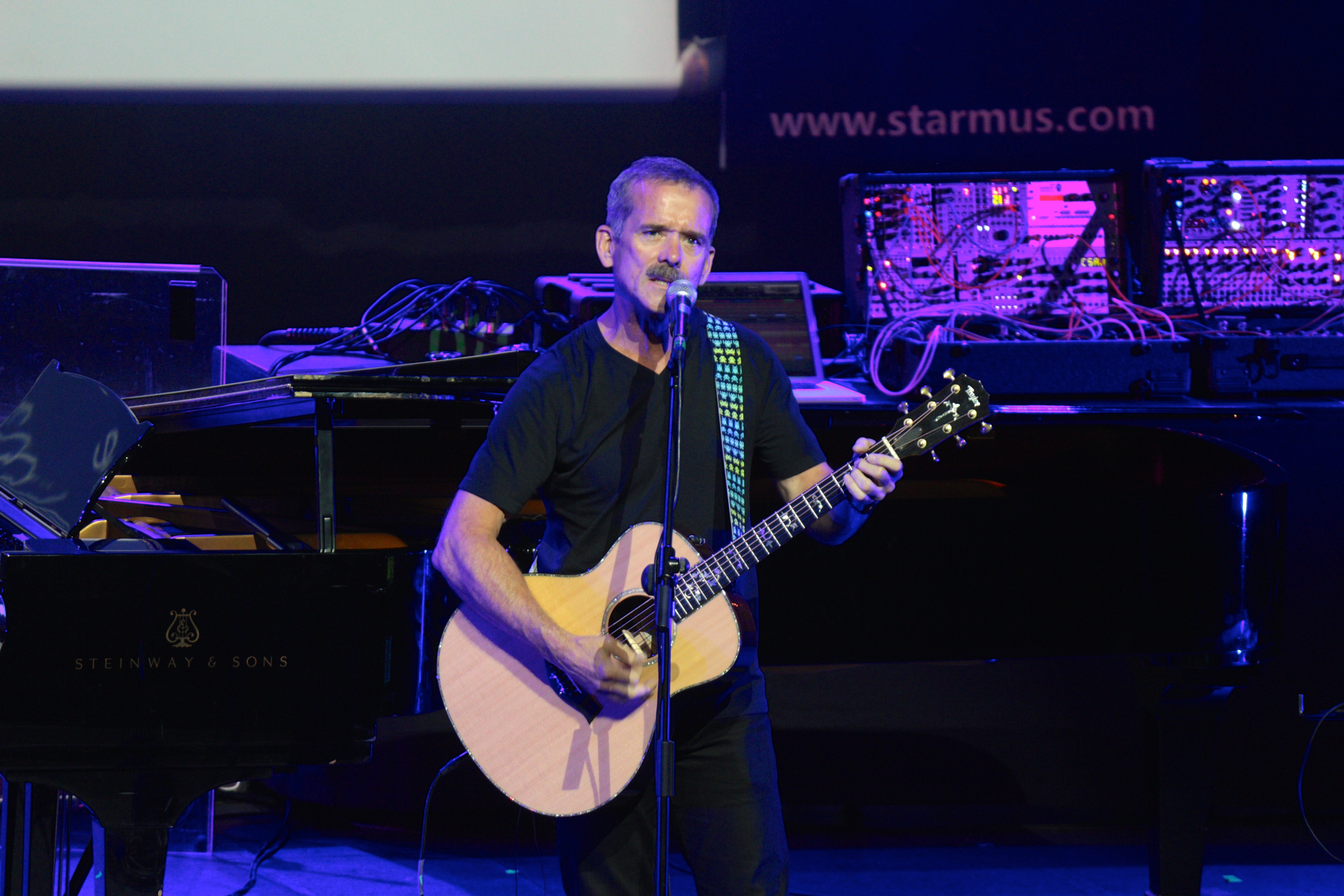 Starmus 2016. Tenerife, Canary Islands.